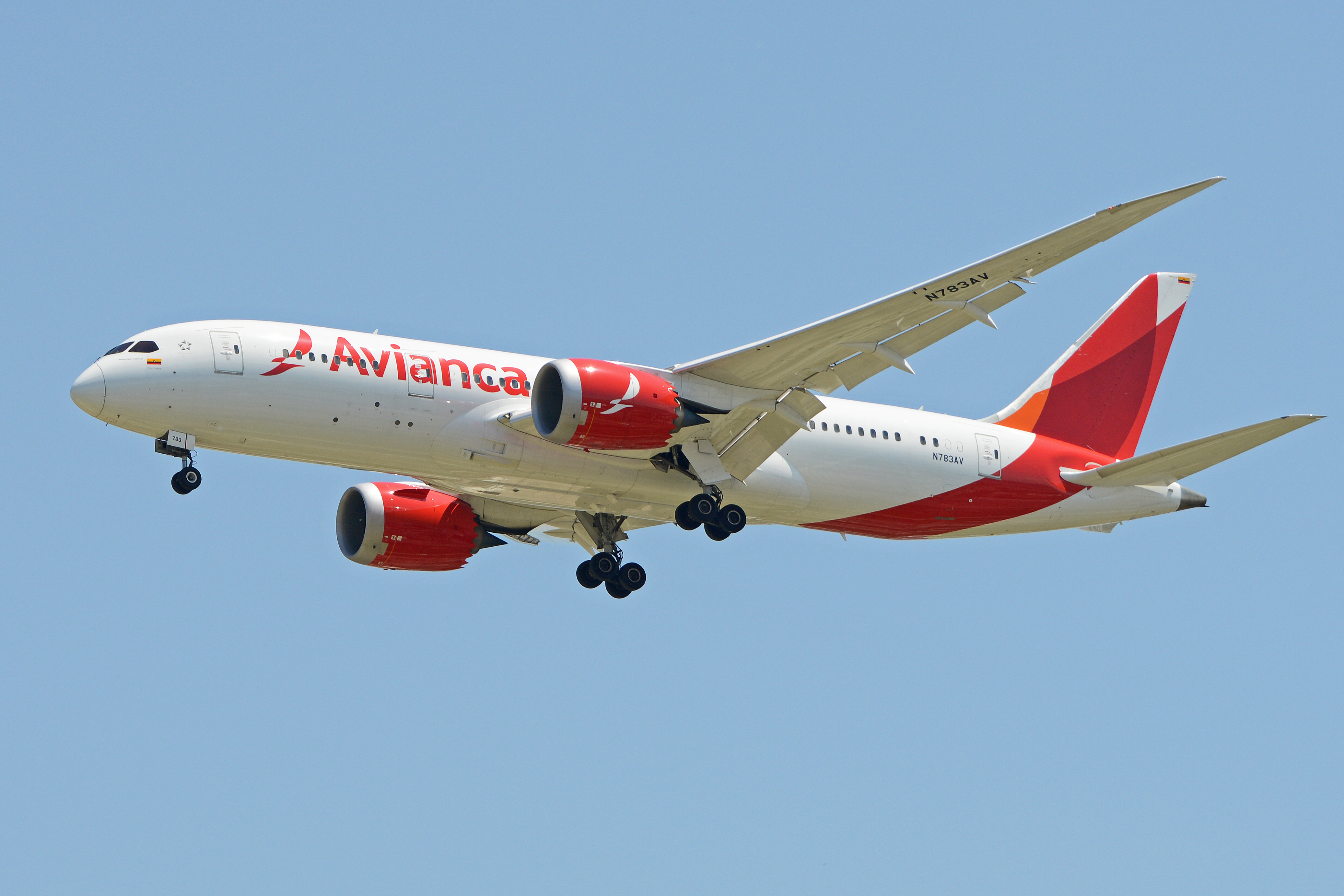 c/n 37505, l/n 242. Built 2014. Seen arriving on flight AV10 from Bogota. Madrid-Barajas International Airport, Spain. 21-5-2016